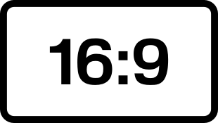 16/9 Logo